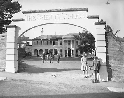 Entrance, Buildings and students of The Friends' School, Hobart in 1948. The Friend's School is the only Quaker College in Australia. Established more than 70 years ago, the school was co-educational from the outset.